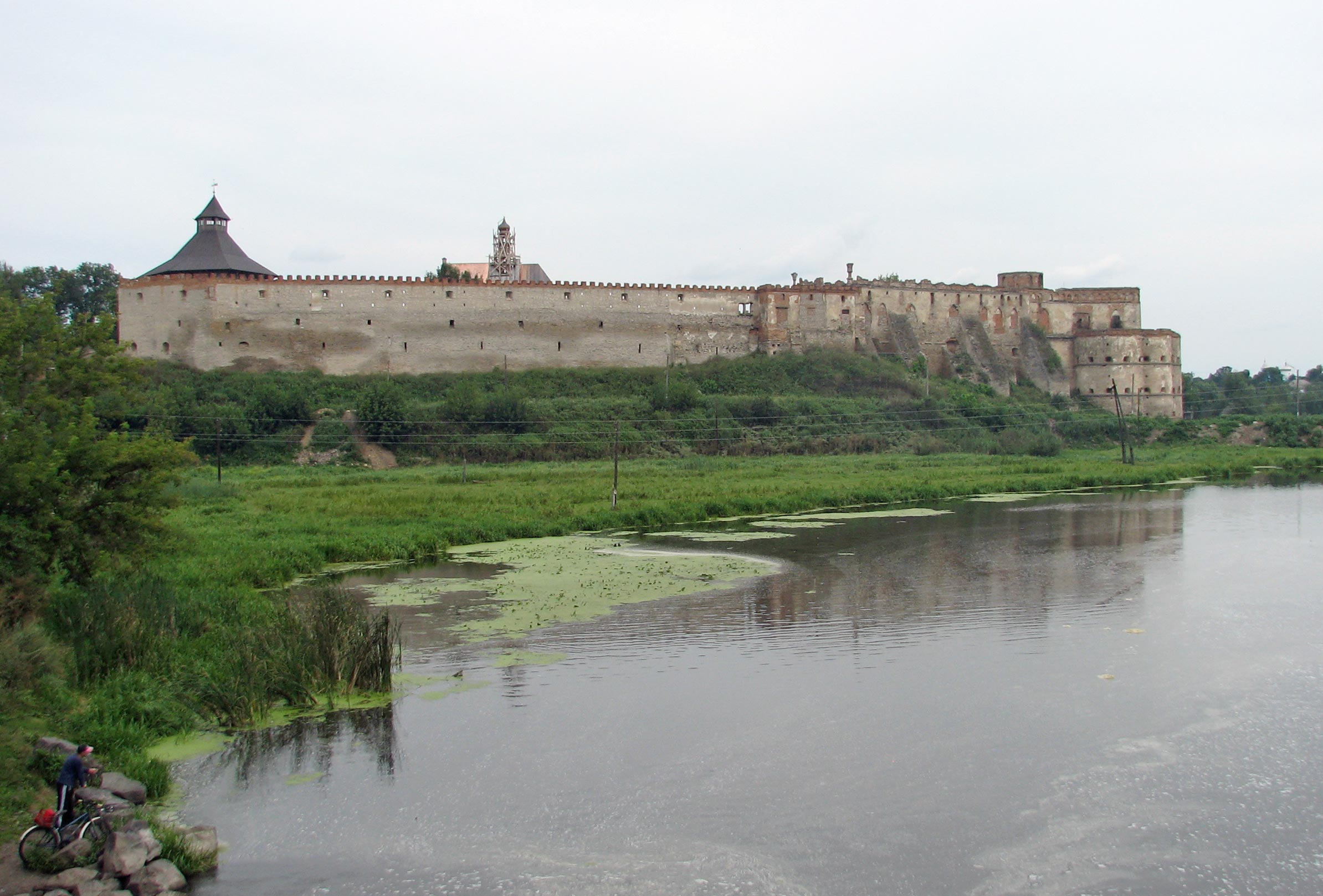 Medzhybizh fortress in Ukraine.